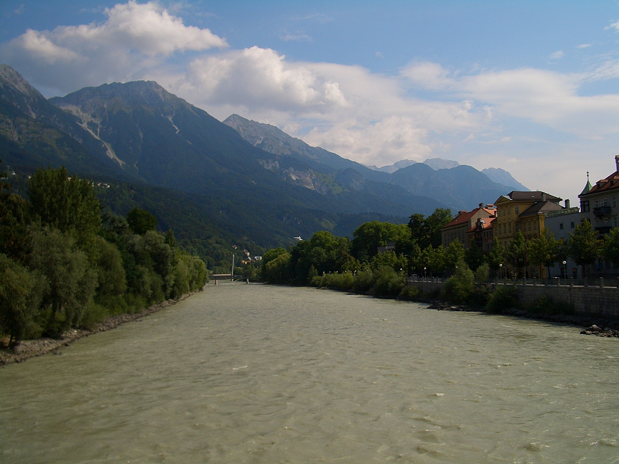 The Inn River in Innsbruck